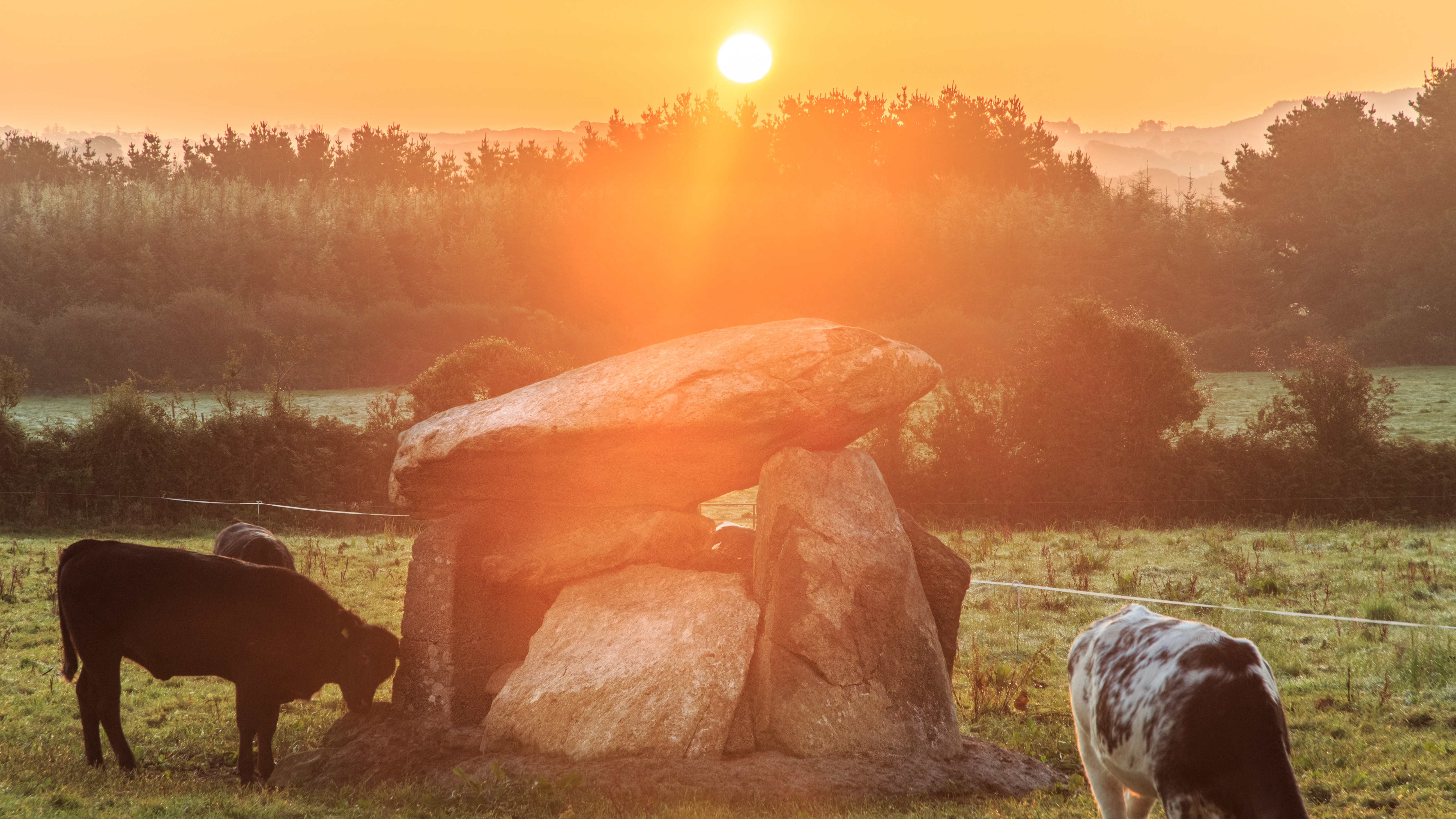 County Waterford, Ballynageeragh Tomb. Wikidata has entry Q17747856 with data related to this item.